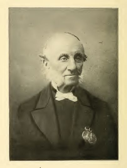 Portrait of the British pastor Robert Whitaker McAll, founder of the so-called MacAll evangelical mission in Paris